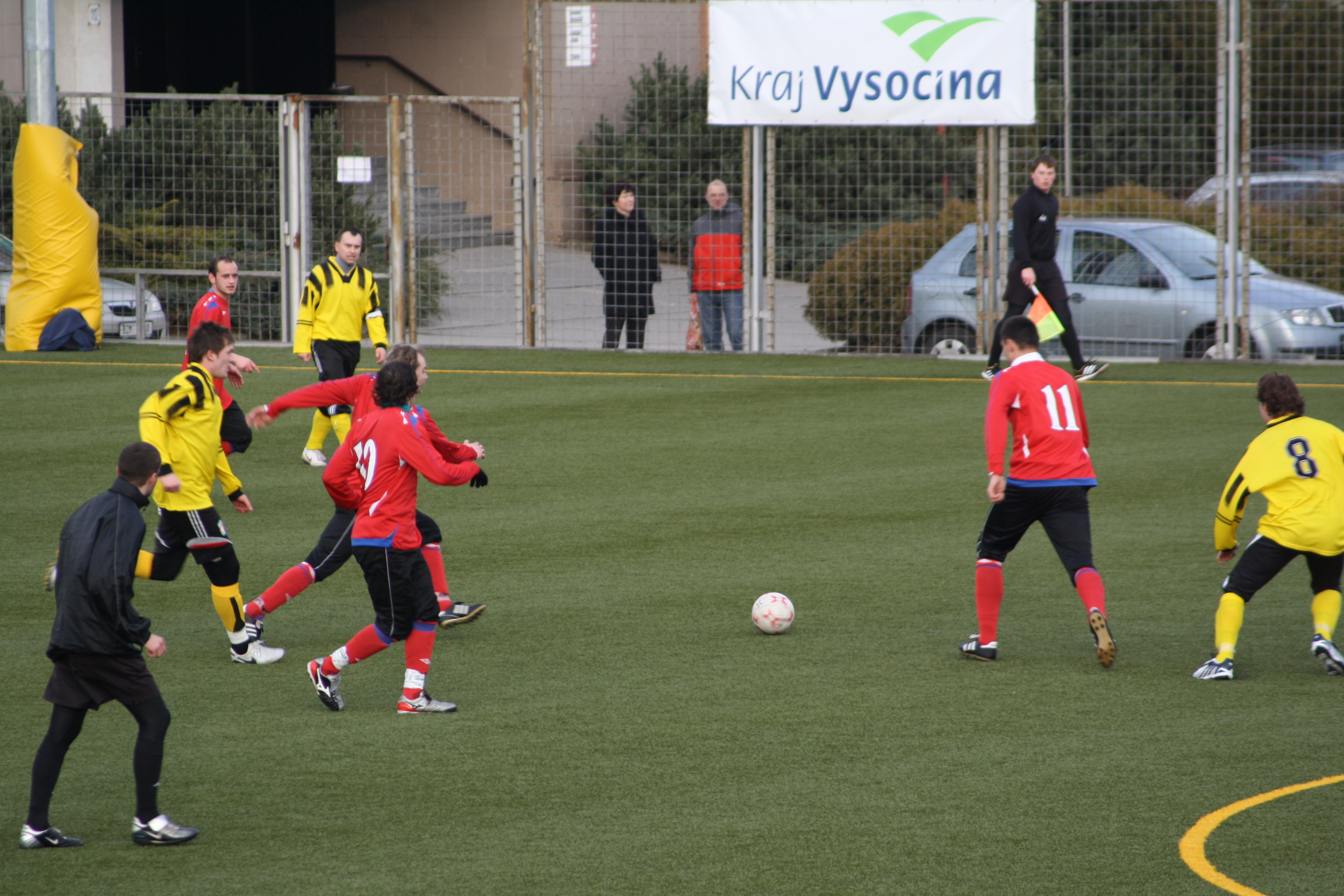 HFK Třebíč A team playing football.